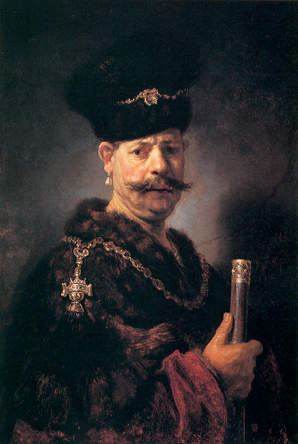 Half figure of a man in oriental costume. Jan Nowak-Jezioranski identifies him as Andrzej Rej, a grandson of Mikołaj Rej, a leading Polish poet and prose writer of the Renaissance. Andrzej Rej (ca. 1584-1641) was a governor of Libusza, Calvinist activist, and a diplomat who was sent on a diplomatic mission in 1637 to the Danish, Dutch and English courts. Other sources identify the sitter as John III Sobieski, King of Poland.